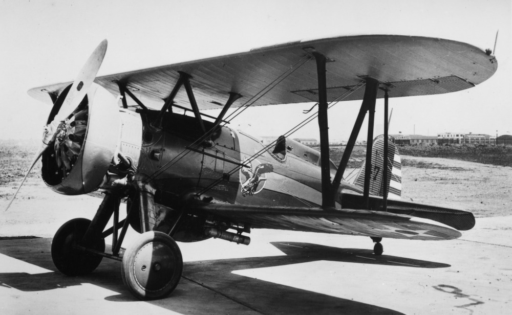 PictionID:41898777 - Title:Ray Wagner Collection Image - Catalog:16_000788 Boeing P-12E 27PS 47 - Filename:16_000788 Boeing P-12E 27PS 47.tif - - Ray Wagner was Archivist at the San Diego Air and Space Museum for several years and is an author of several books on aviation --- ---Please Tag these images so that the information can be permanently stored with the digital file.---Repository: San Diego Air and Space Museum